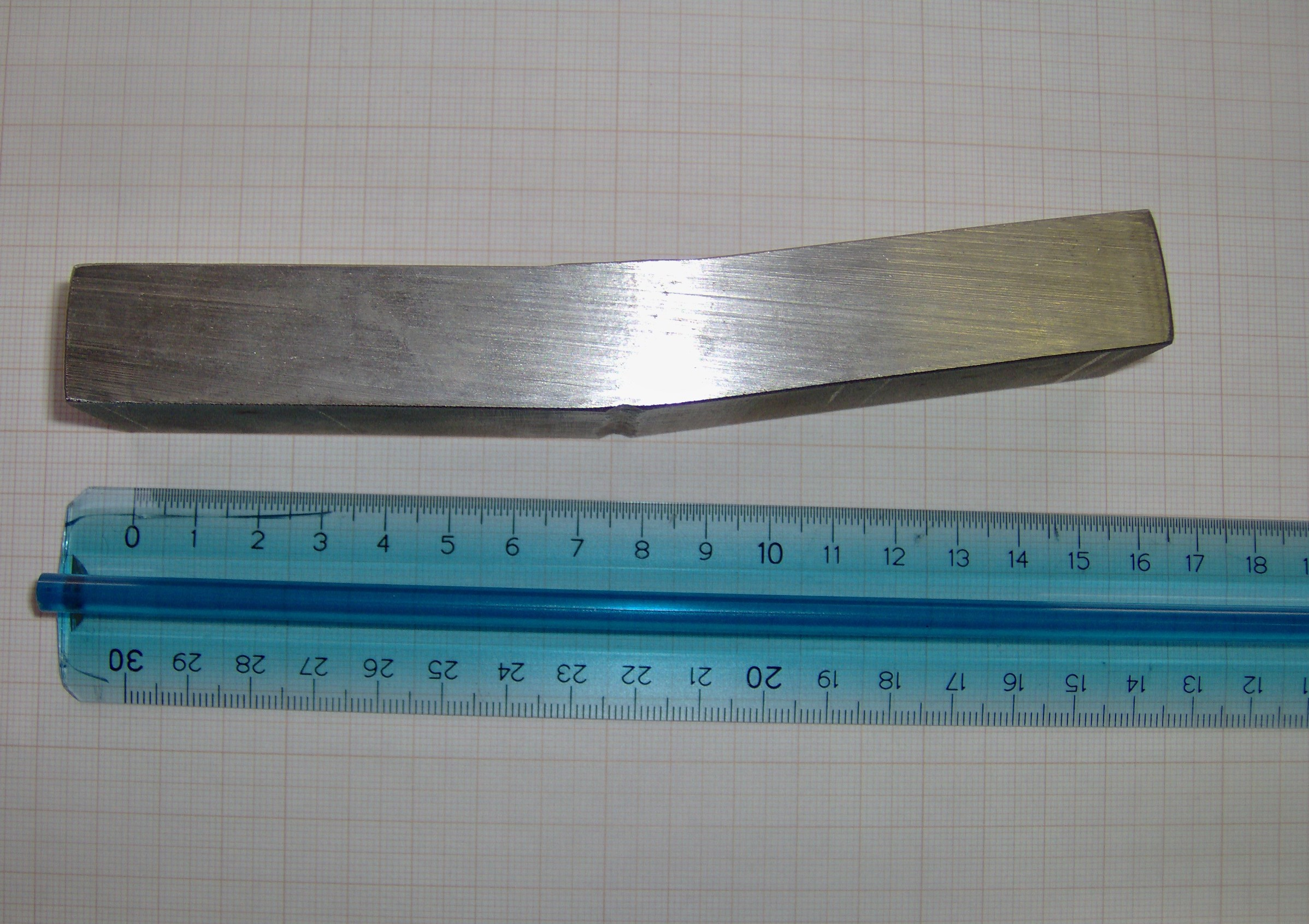 Deformation in welded plate not restrained